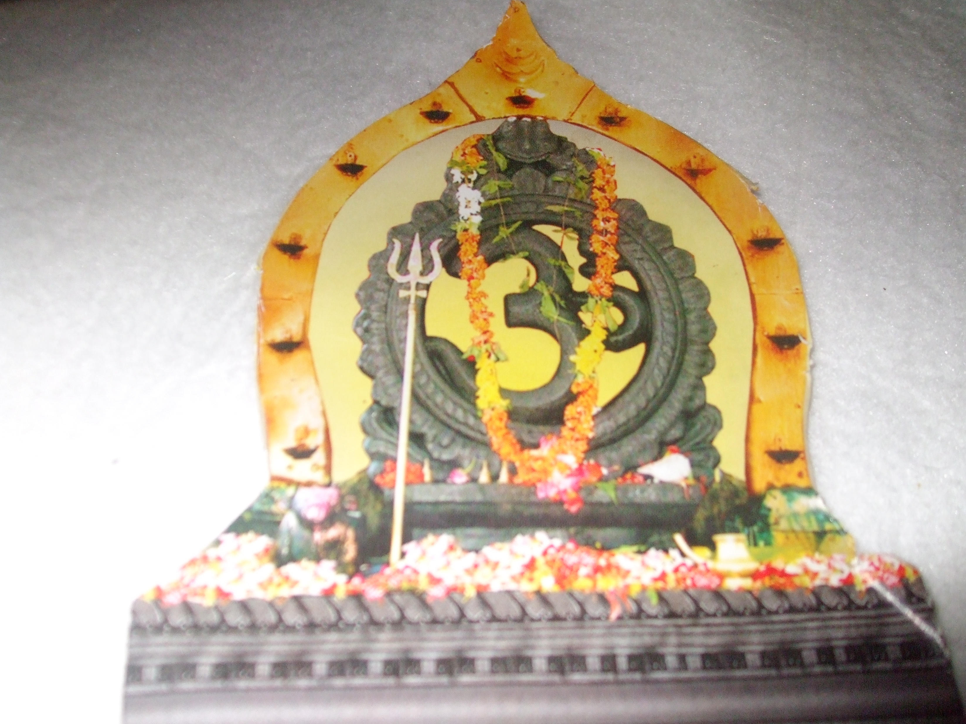 The presiding deity of the Padanilam Temple